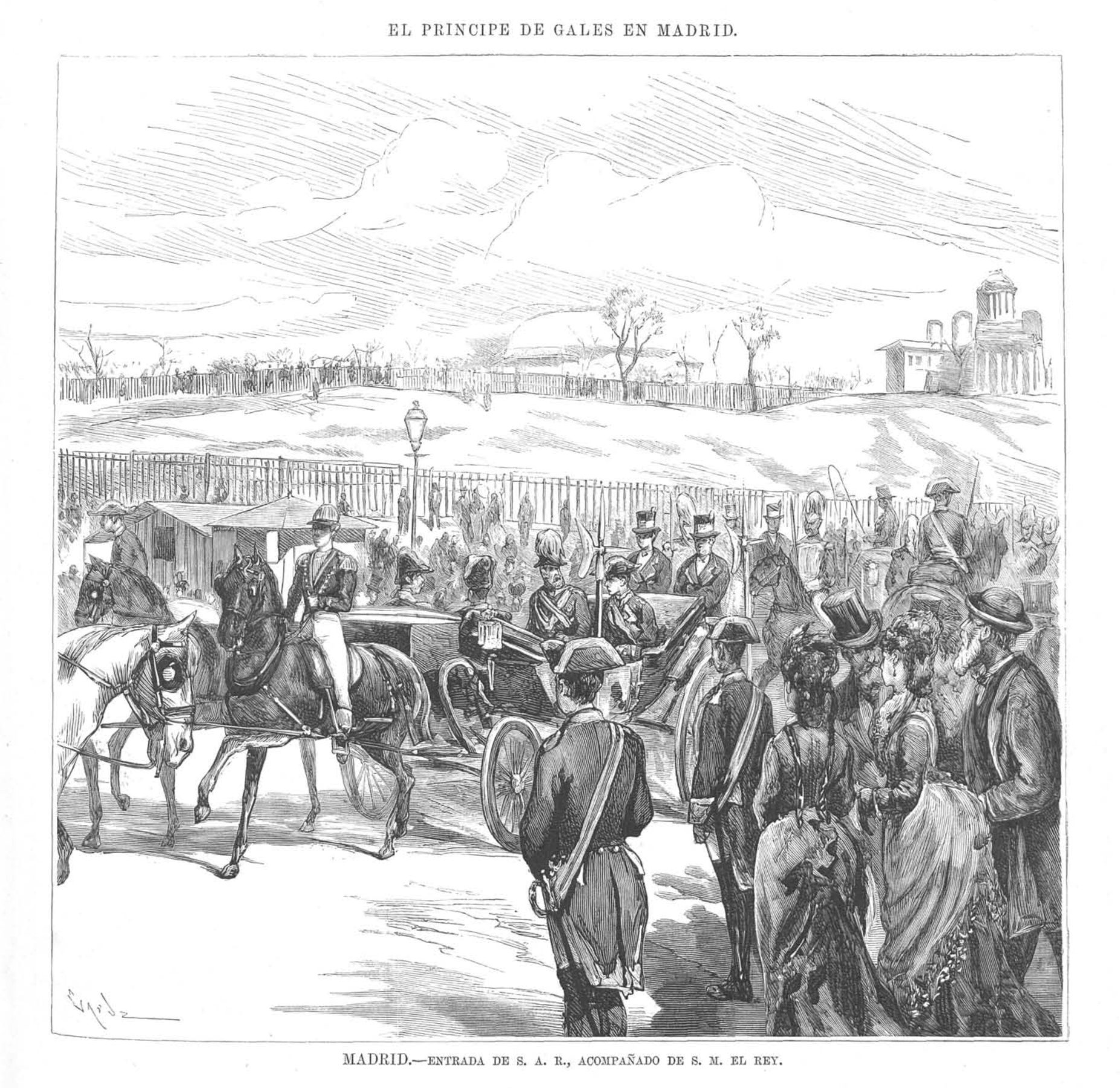 Drawing of the then Prince of Wales (later Edward VII) and king Alfonso XII of Spain entering Madrid